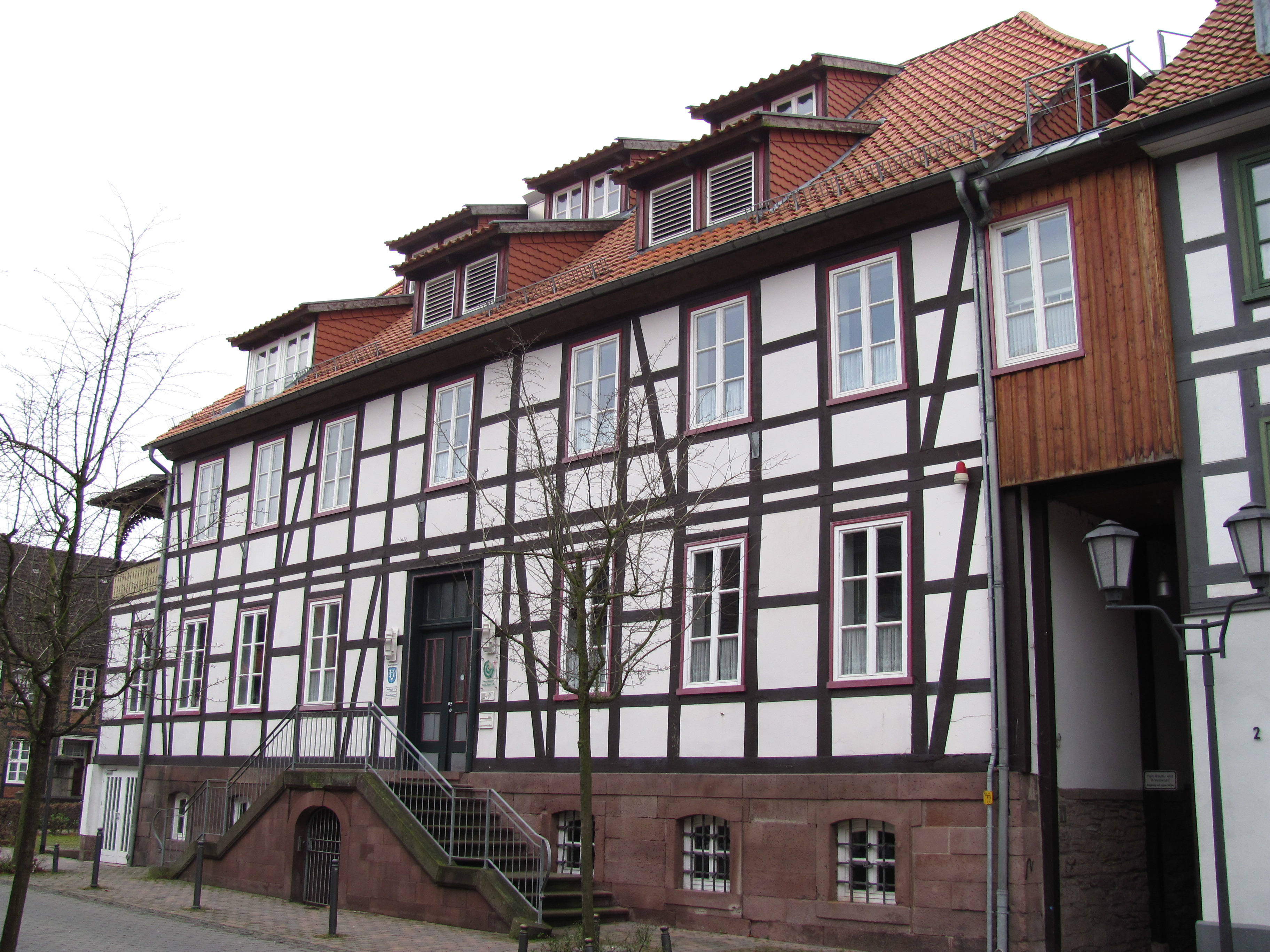 Former Town Hall in Dassel, Germany.